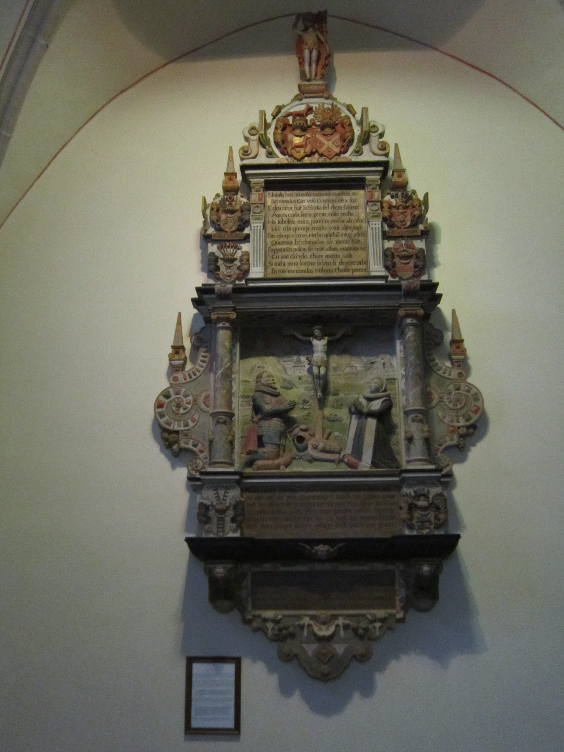 Epitaph in the church St. John Baptist in Bakum (Landkreis Vechta, Lower Saxony) of Bernd Gier Voss and his first wife Agnes von Schloen called Gehle who died during child labour on August 25th 1608